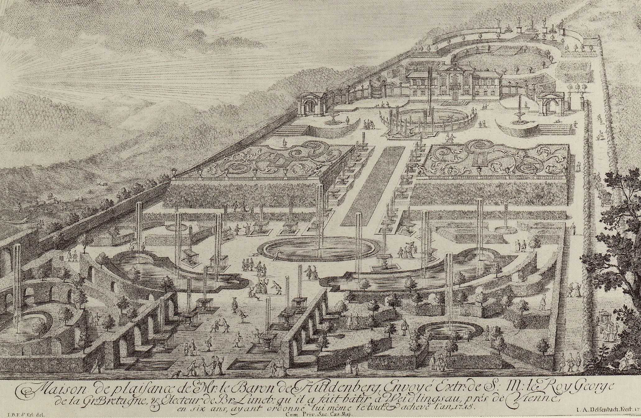 Huldenberg pleasure palace